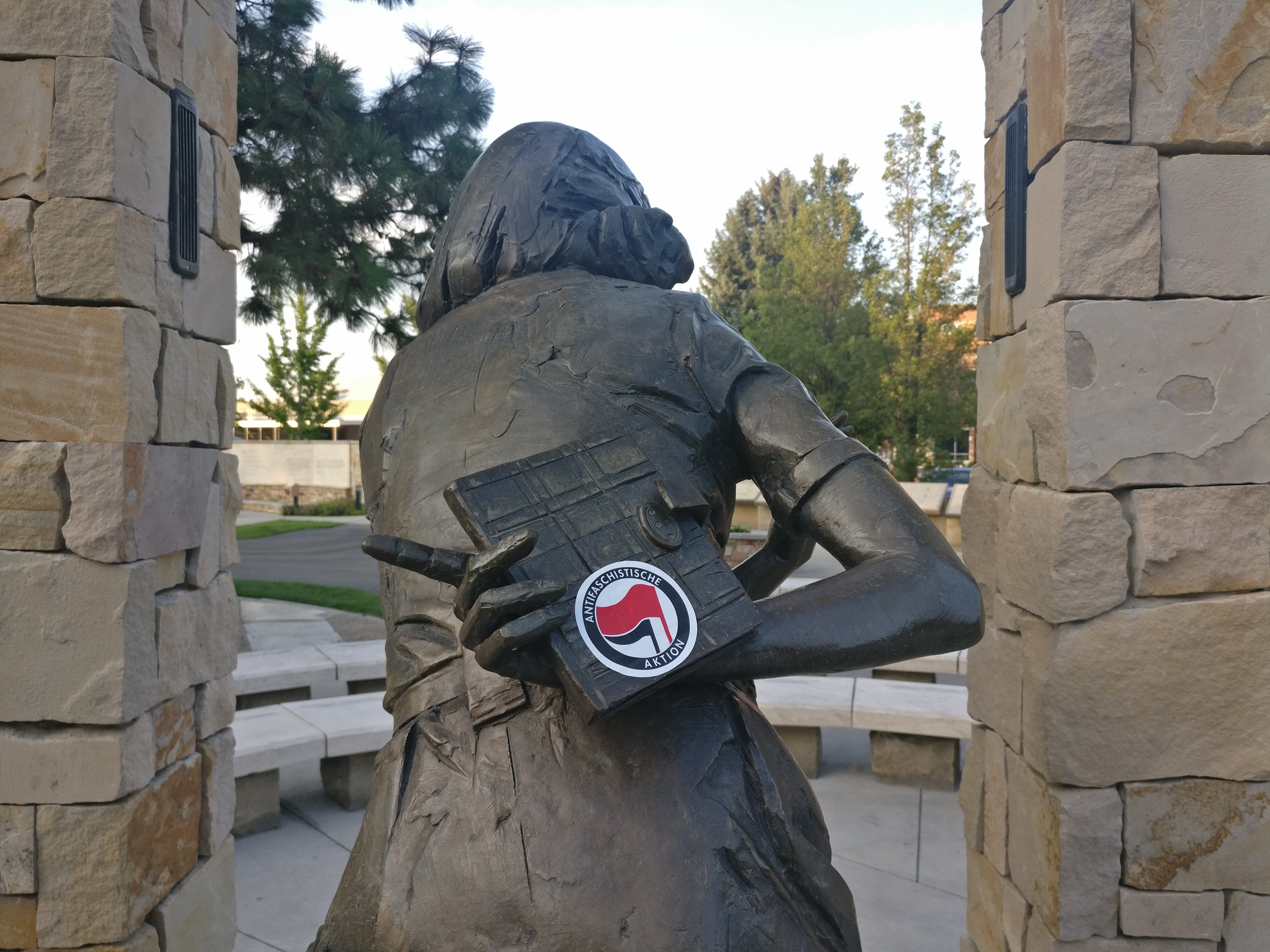 An Antifaschistische Aktion (Antifa) sticker placed on the representation of the diary of Anne Frank at the Anne Frank Human Rights Memorial in Boise, Idaho.